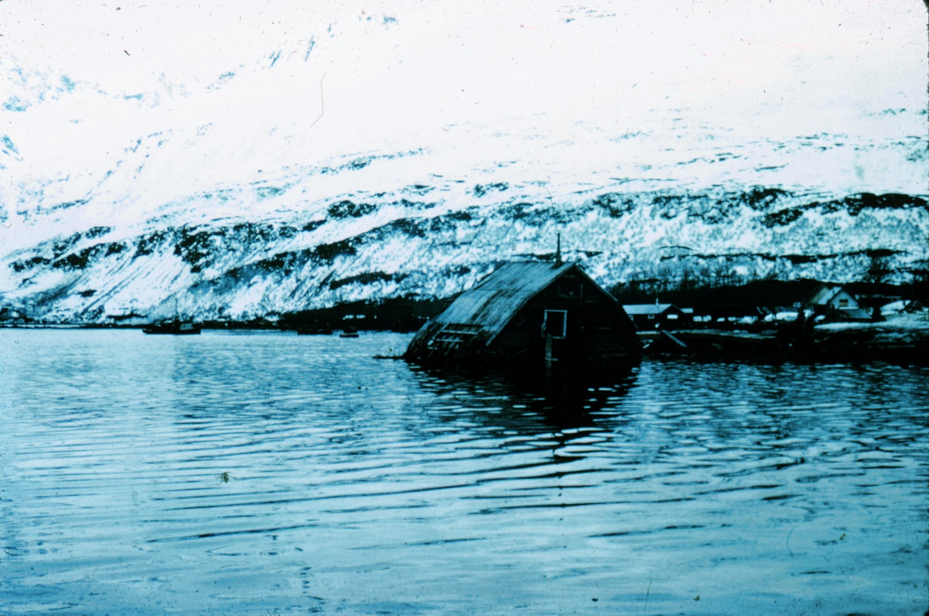 Radical changes in sea level near Valdez, Alaska following 1964 Alaska Good Friday Earthquake.